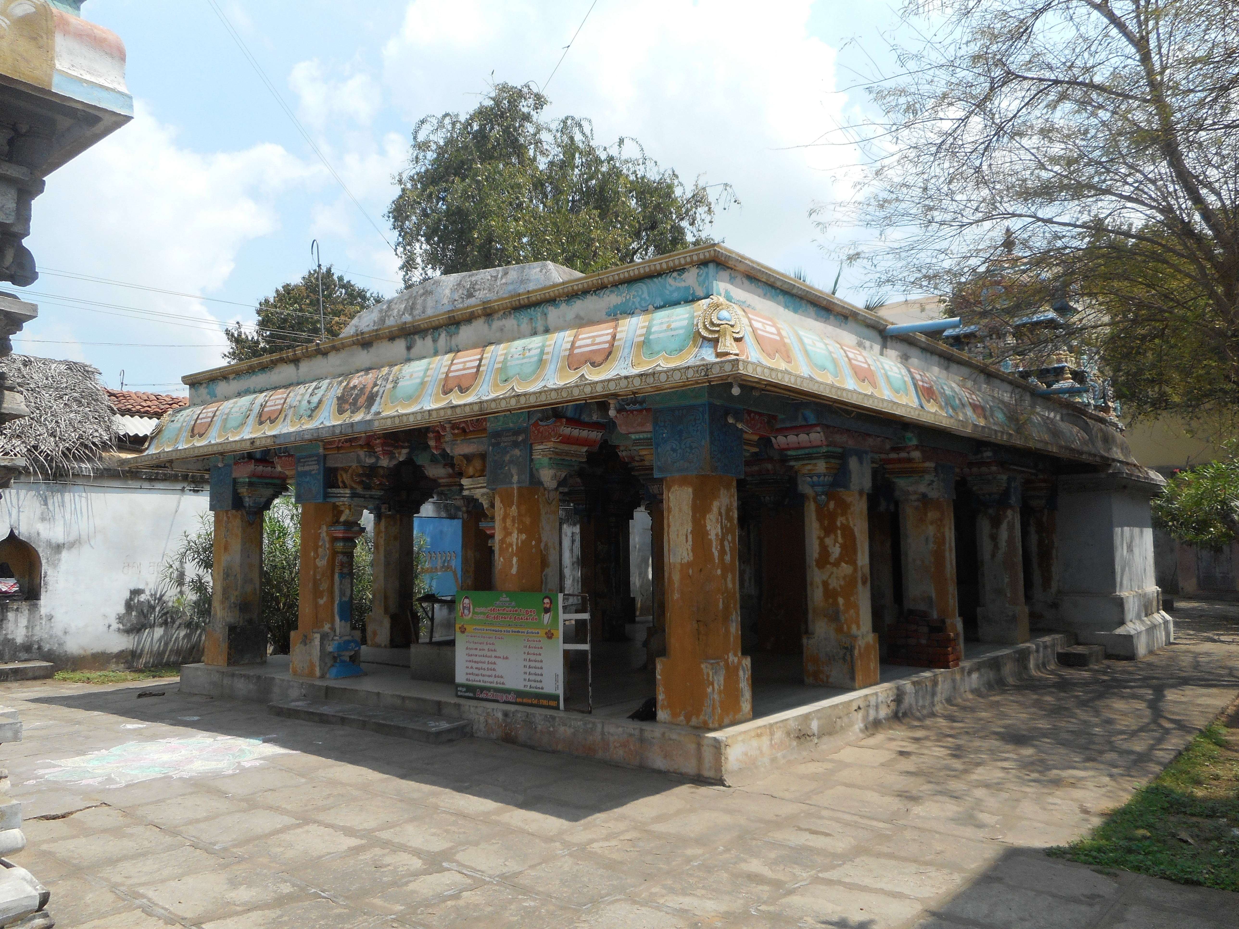 கும்பகோணம் வீரபத்திரர் கோயில்1